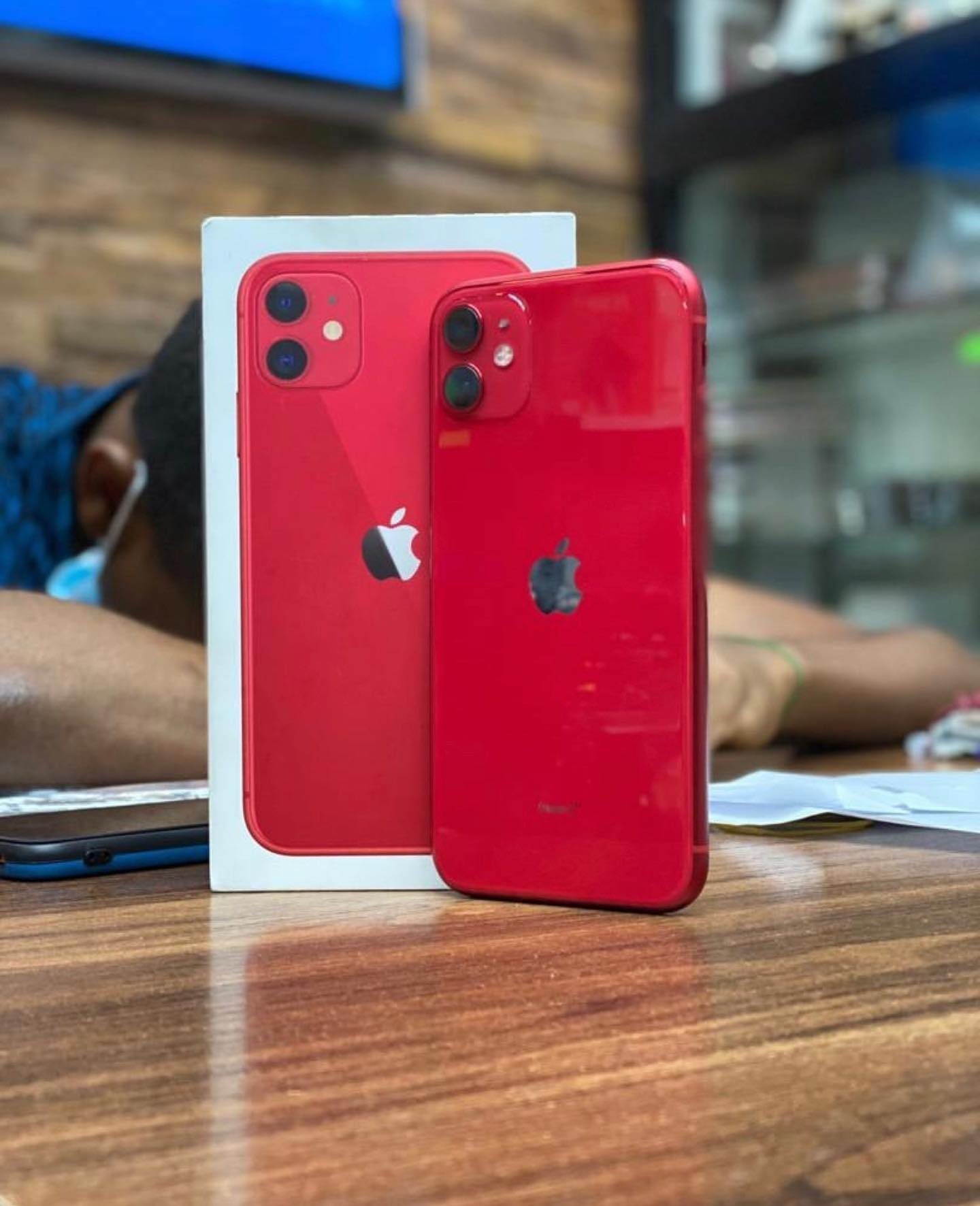 The iPhone 11 is a smartphone designed, developed, and marketed by Apple Inc. It is the thirteenth generation lower-priced iPhone, succeeding the iPhone XR. It was unveiled on September 10, 2019